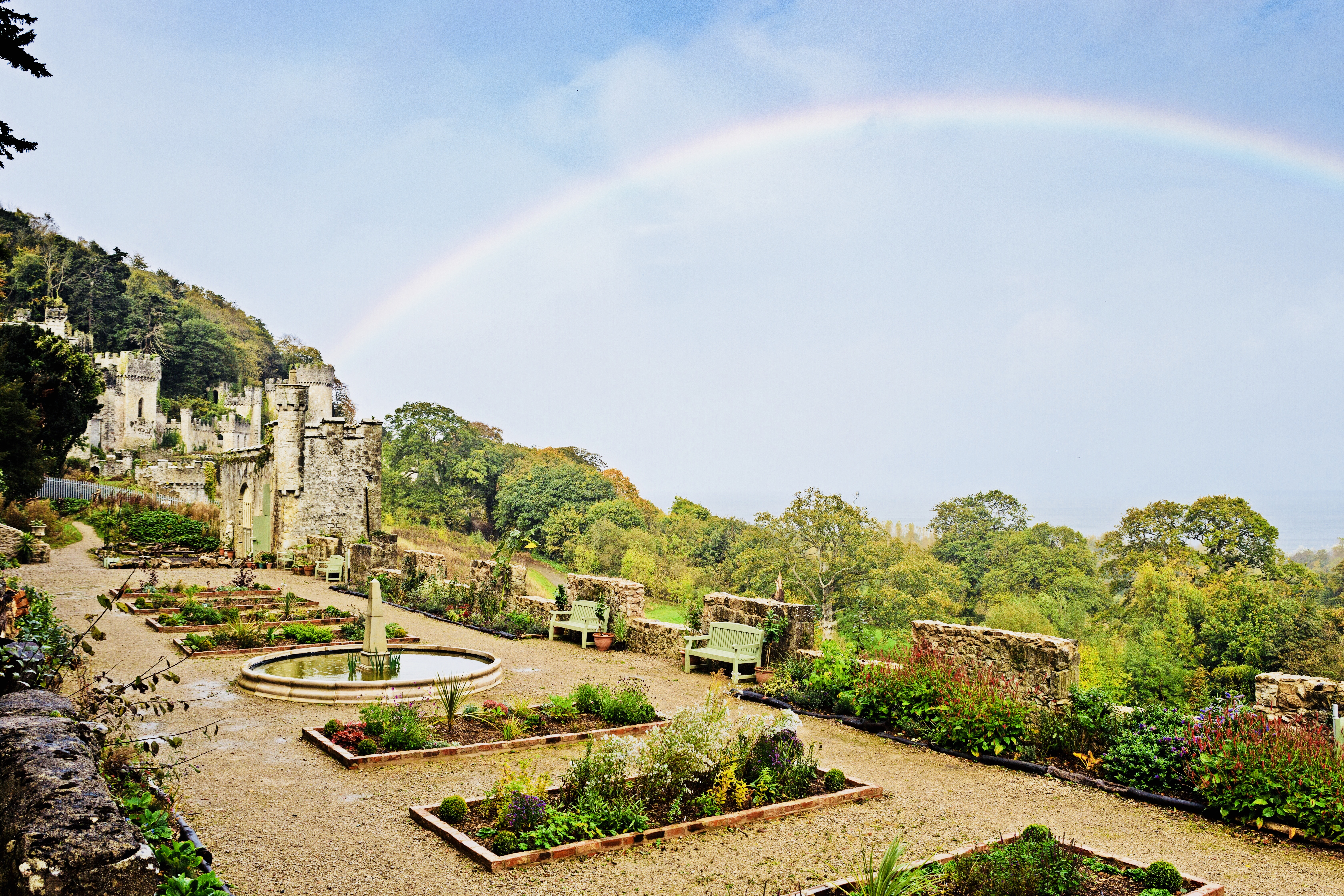 The gardens were based upon Queen Eleanor’s garden at Conwy Castle and were created by Lloyd Hesketh Bamford Hesketh in the 1830s. They have been restored by the Gwrych Castle Preservation Trust in 2014.